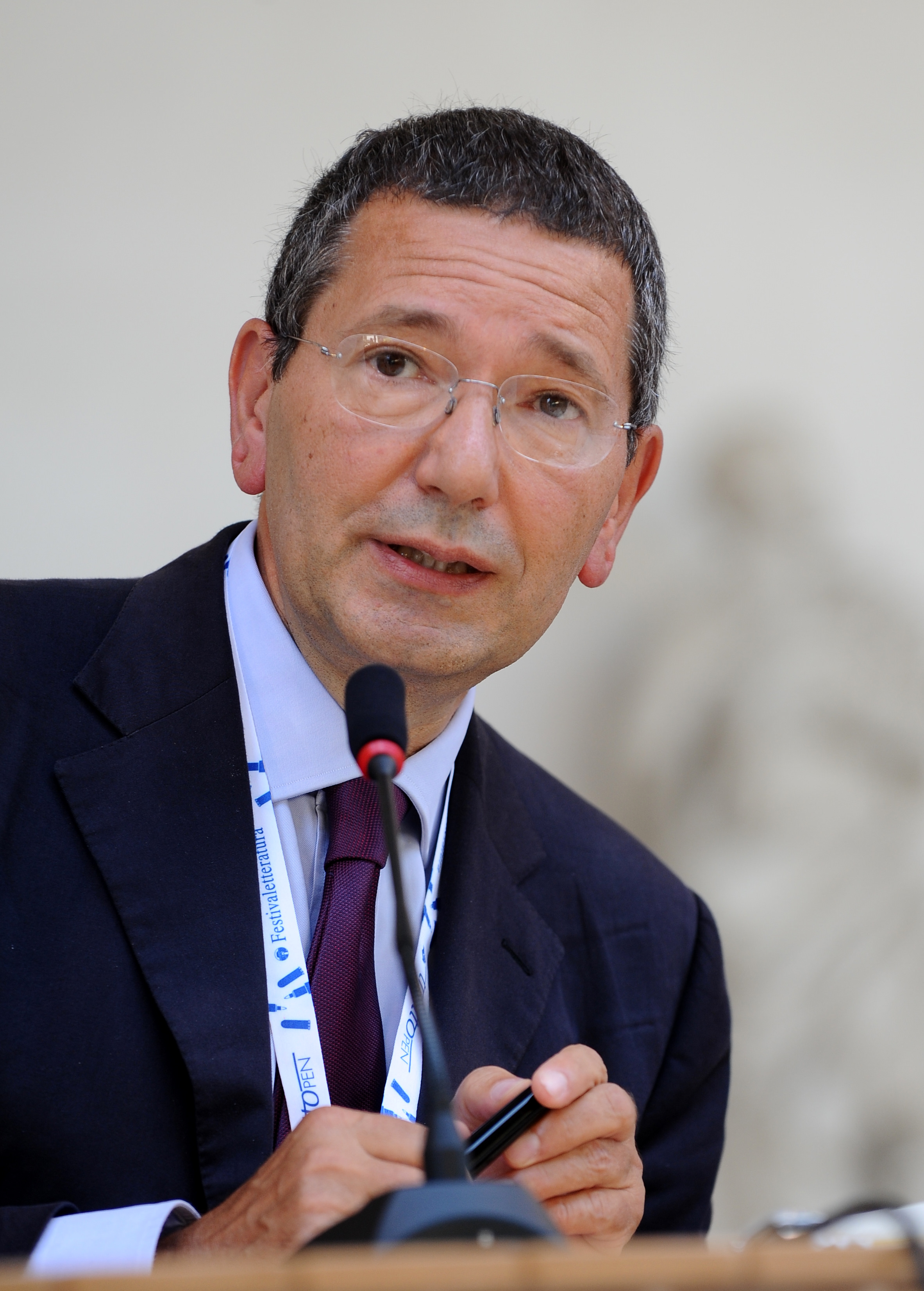 Italian surgeon and politician Ignazio Marino at the Festivaletteratura 2012 in Mantua.